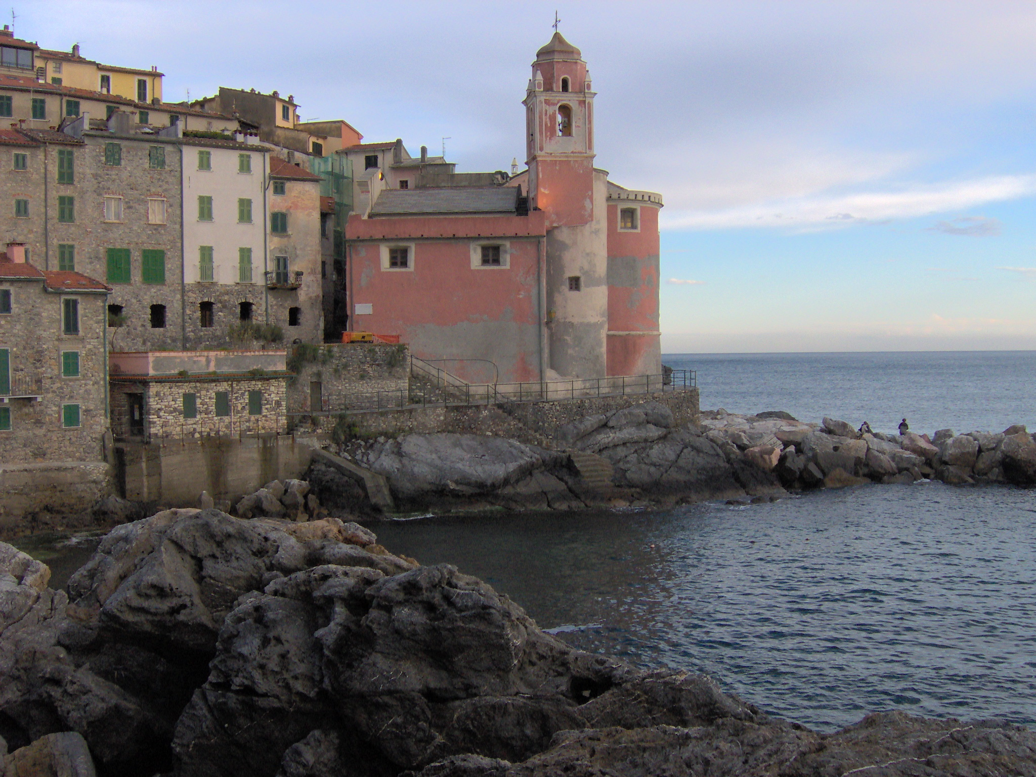 The church at Tellaro.